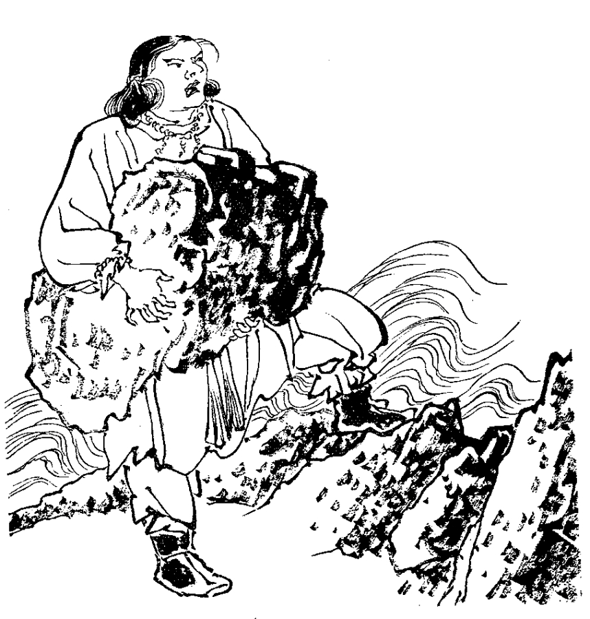 Takeminakata-no-Kami lifting a rock.